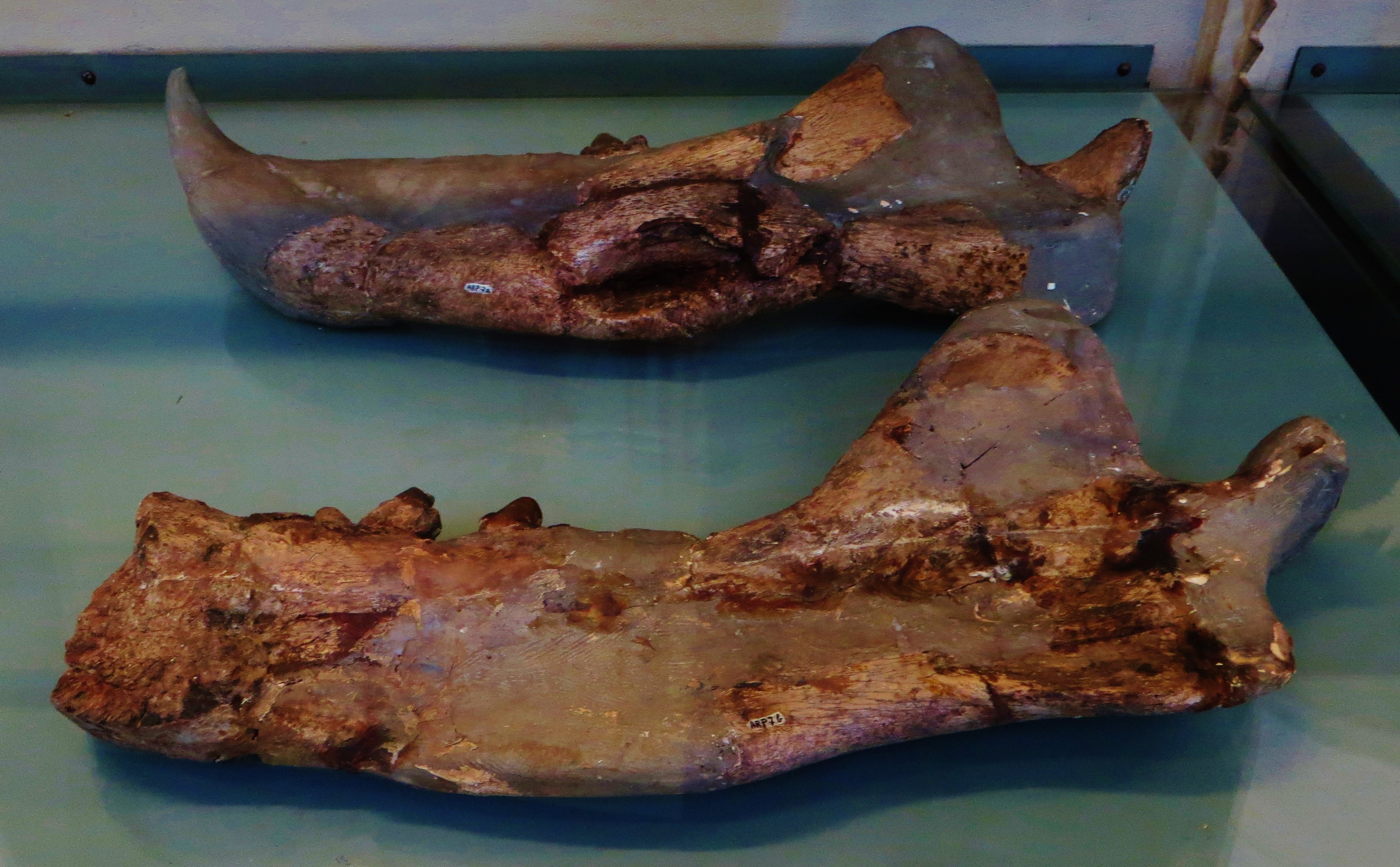 Crop of file in filename